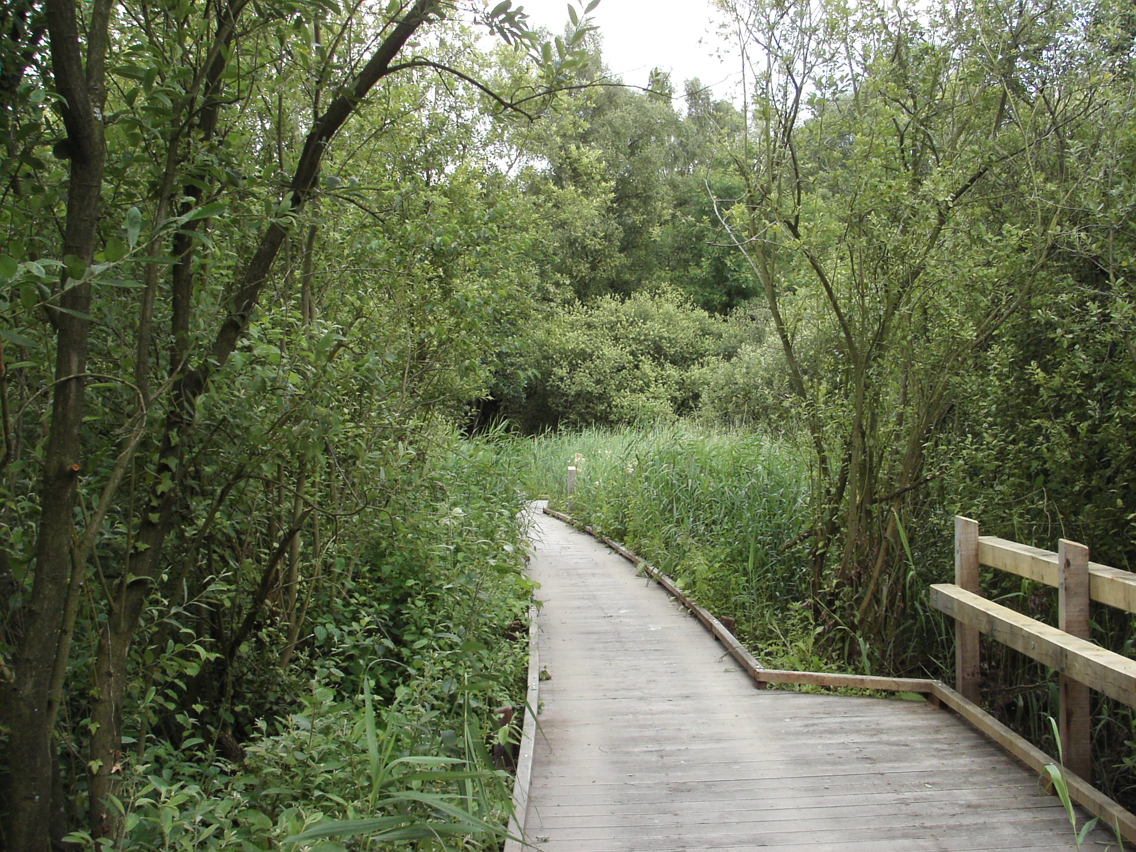 Footpath on the regional nature reserve at Cambrin (north of France)